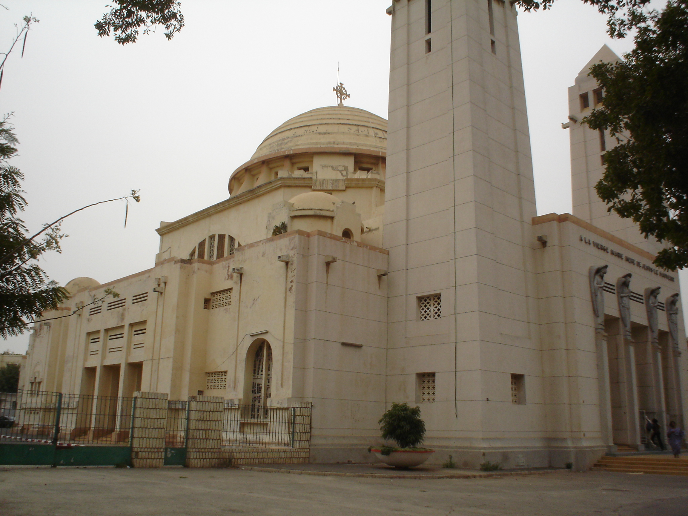 The Cathedral of Dakar, Senegal